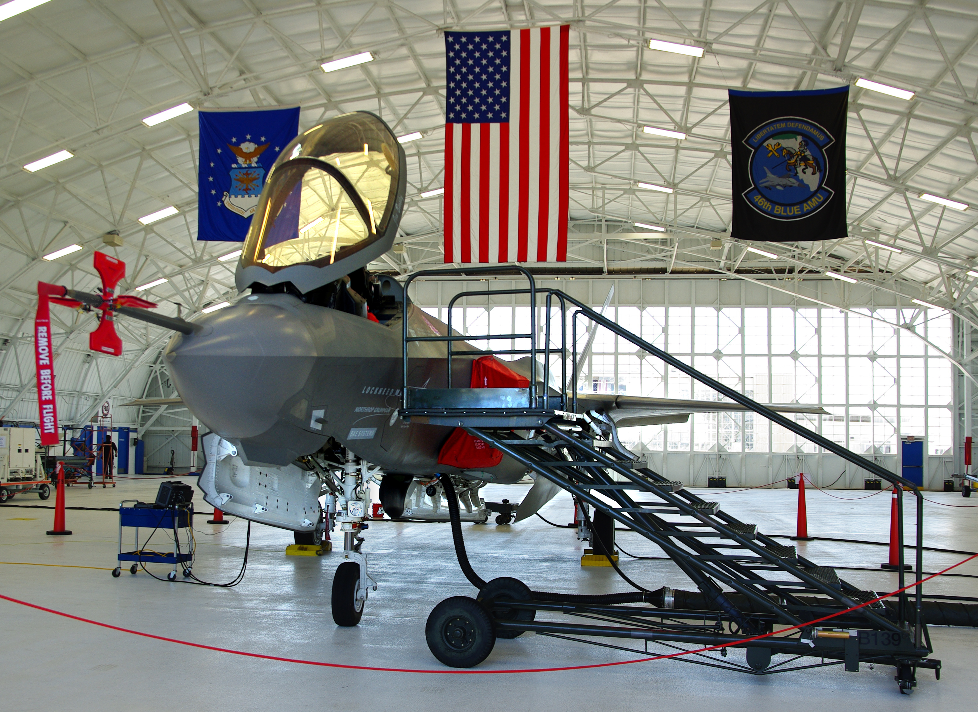 First visit of the F-35 Lightning II to Eglin AFB Florida. This first test model, AA-1, flew in from the factory in Ft Worth, Texas and has been undergoing extensive testing.